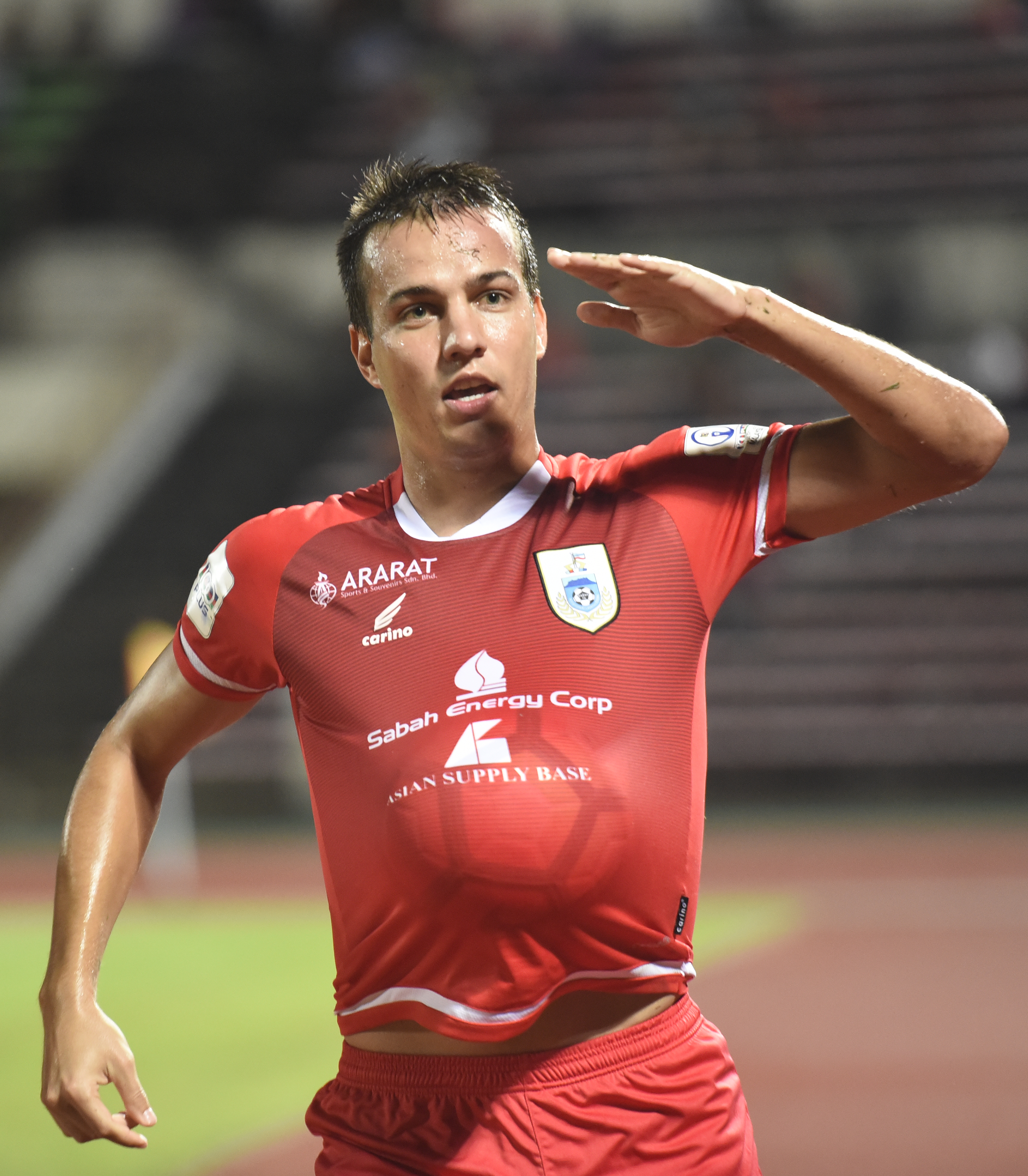 Igor Cerina, Crotian Footballer played for Sabah Football Club in Malaysia Premier League.